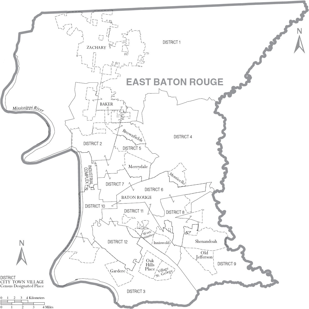 Map of East_Baton_Rouge Parish, Louisiana, United States with municipal and district boundaries